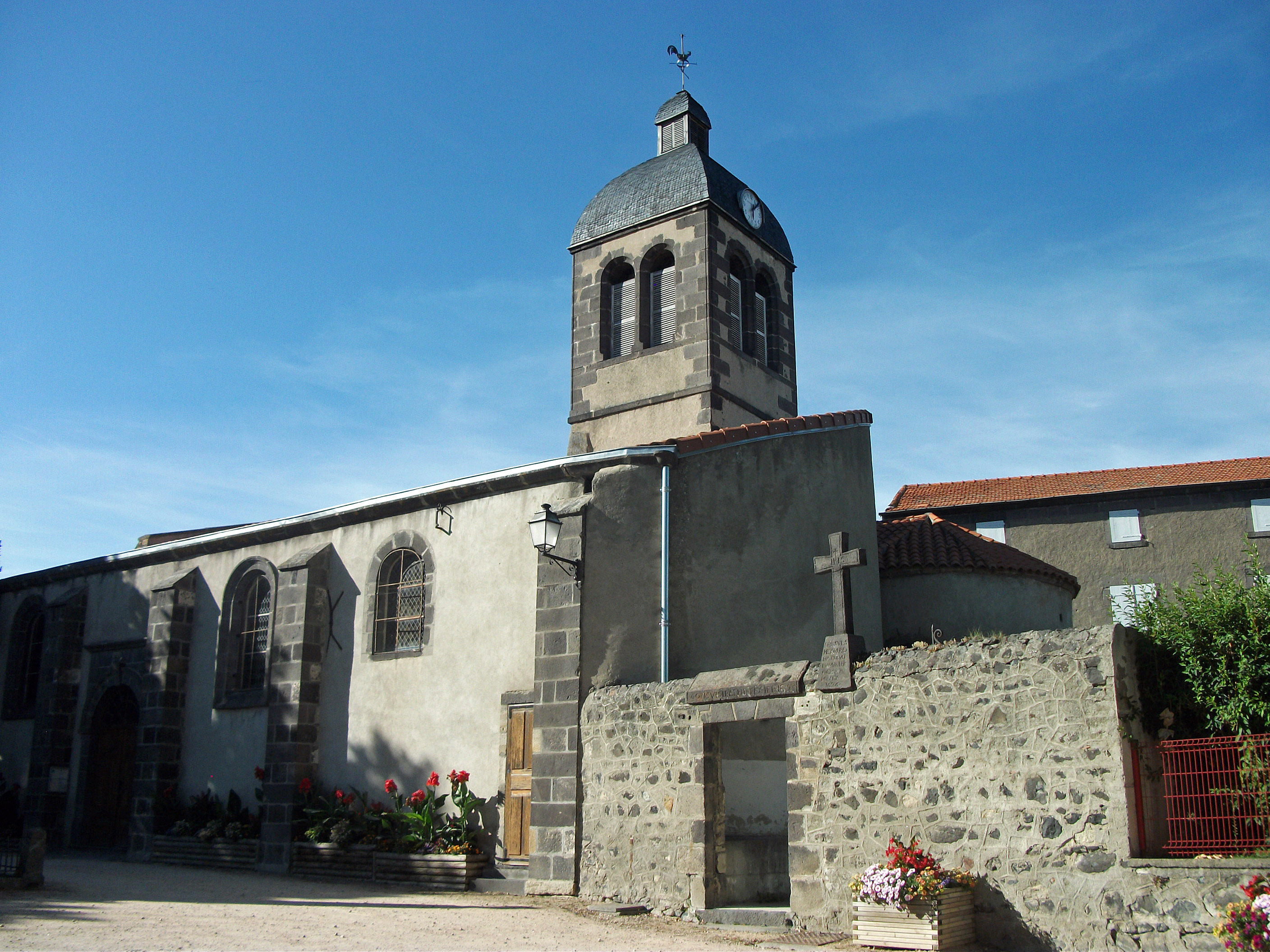 Church of Ménétrol, Puy-de-Dôme, France [11527]